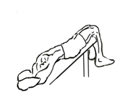 an exercise of abs